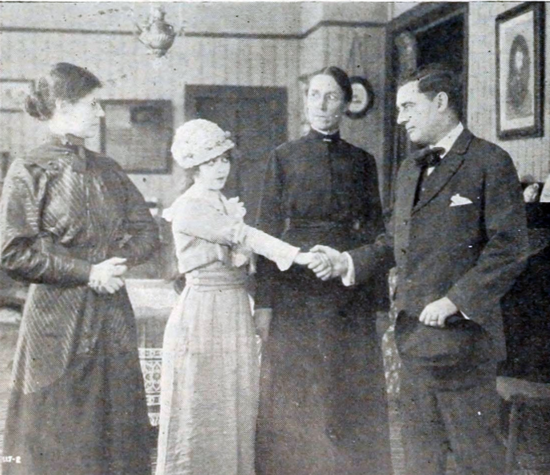 Illustration of an article in The Moving Picture World